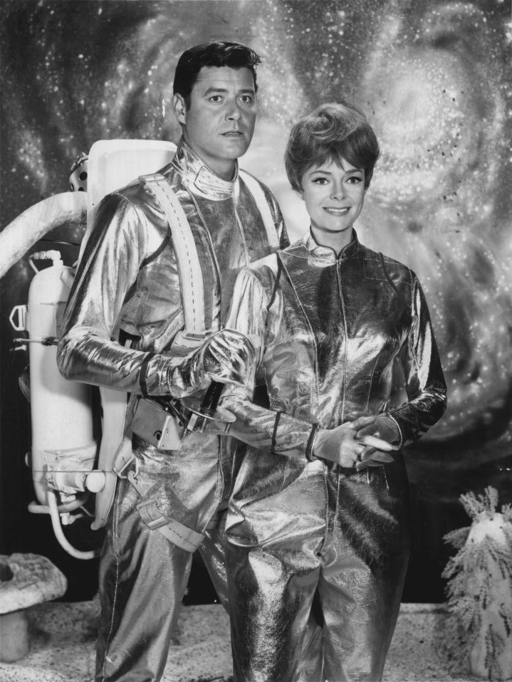 Publicity photo of American actors, Guy Williams and June Lockhart promoting their roles on the CBS television series Lost in Space.